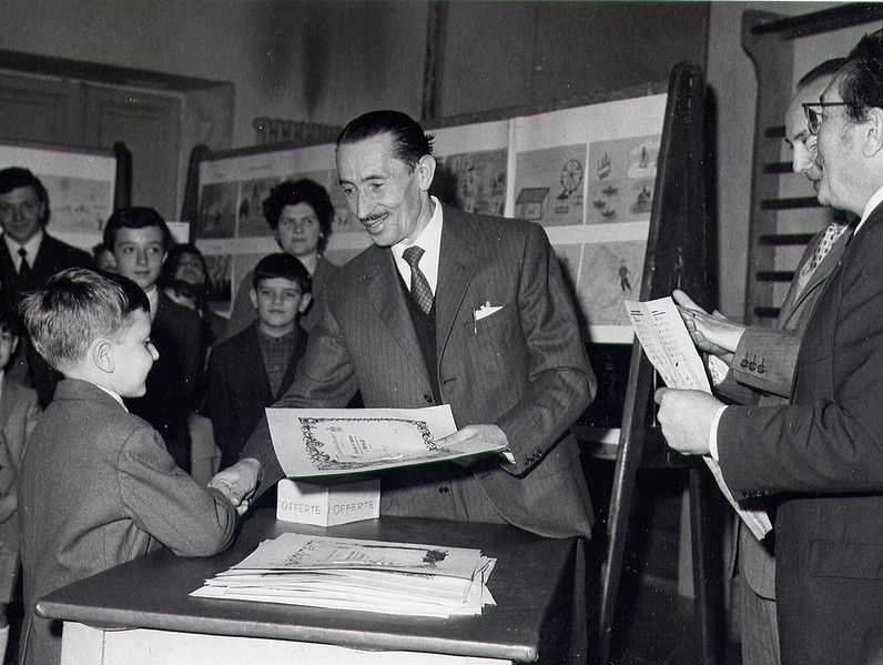 Alvaro Corghi in 1968